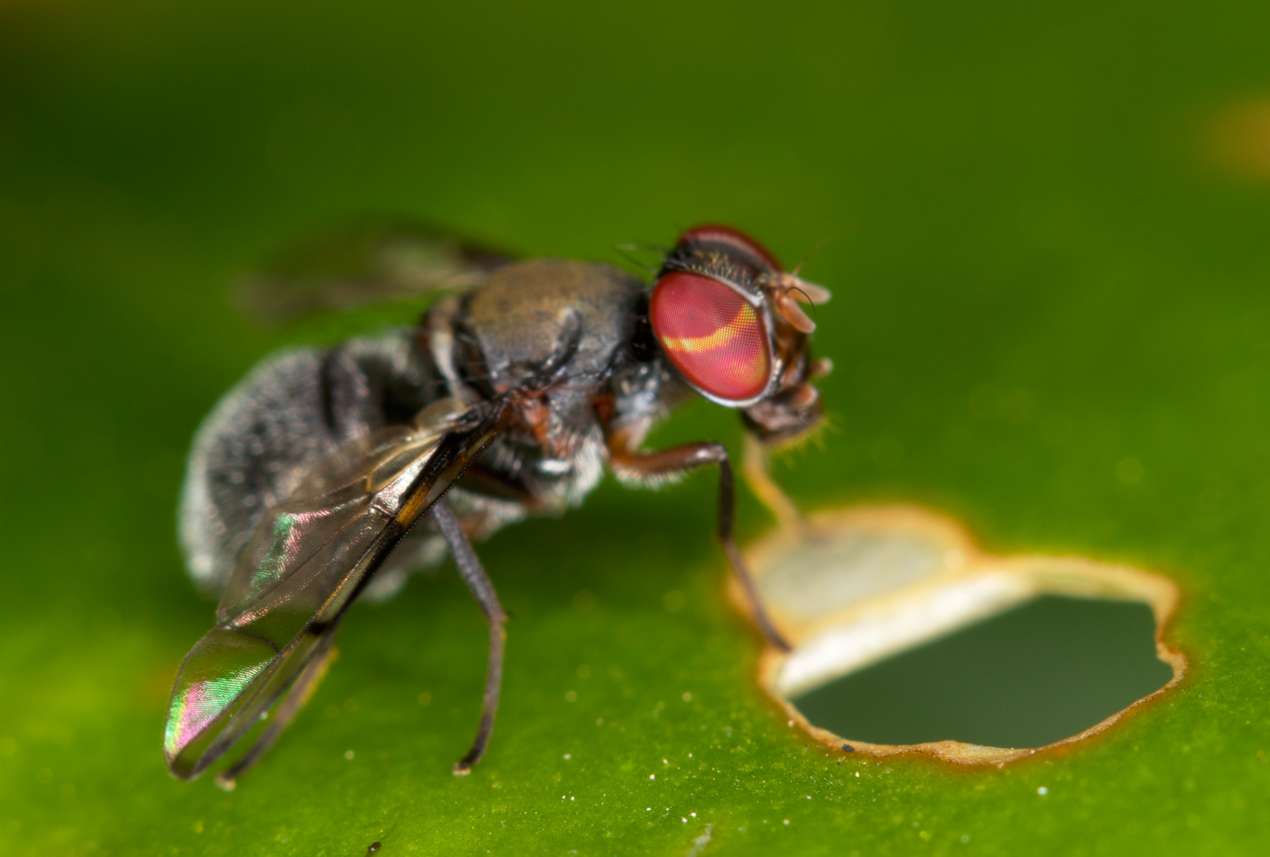 boatman fly